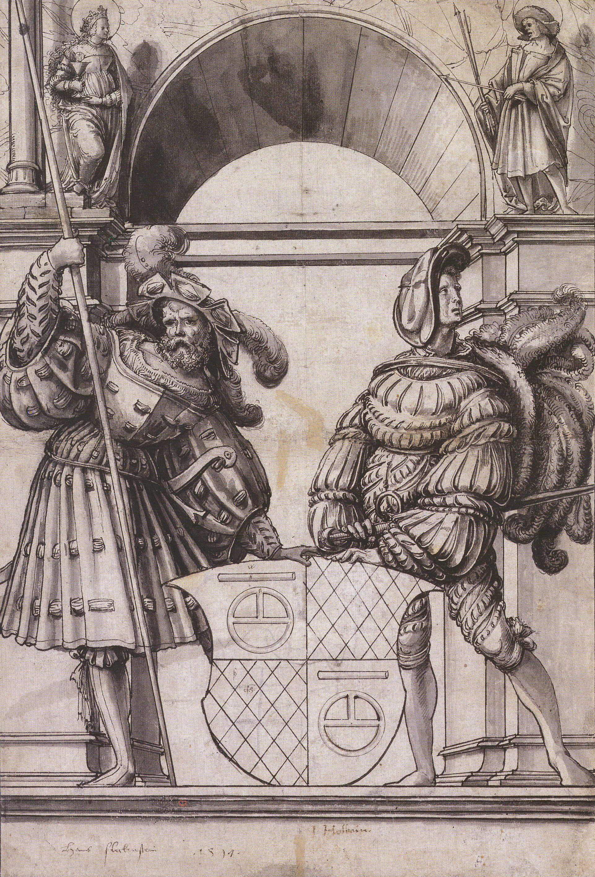 Design for a Stained Glass Window for Hans Fleckenstein. Pen and ink and brush, grey wash, over black crayon underdrawing, 41.3 × 27.8 cm, Herzog Anton Ulrich Museum, Brunswick. The design, for a heraldic stained glass window, dates from Holbein's stay in Lucerne between 1517 and 1519.